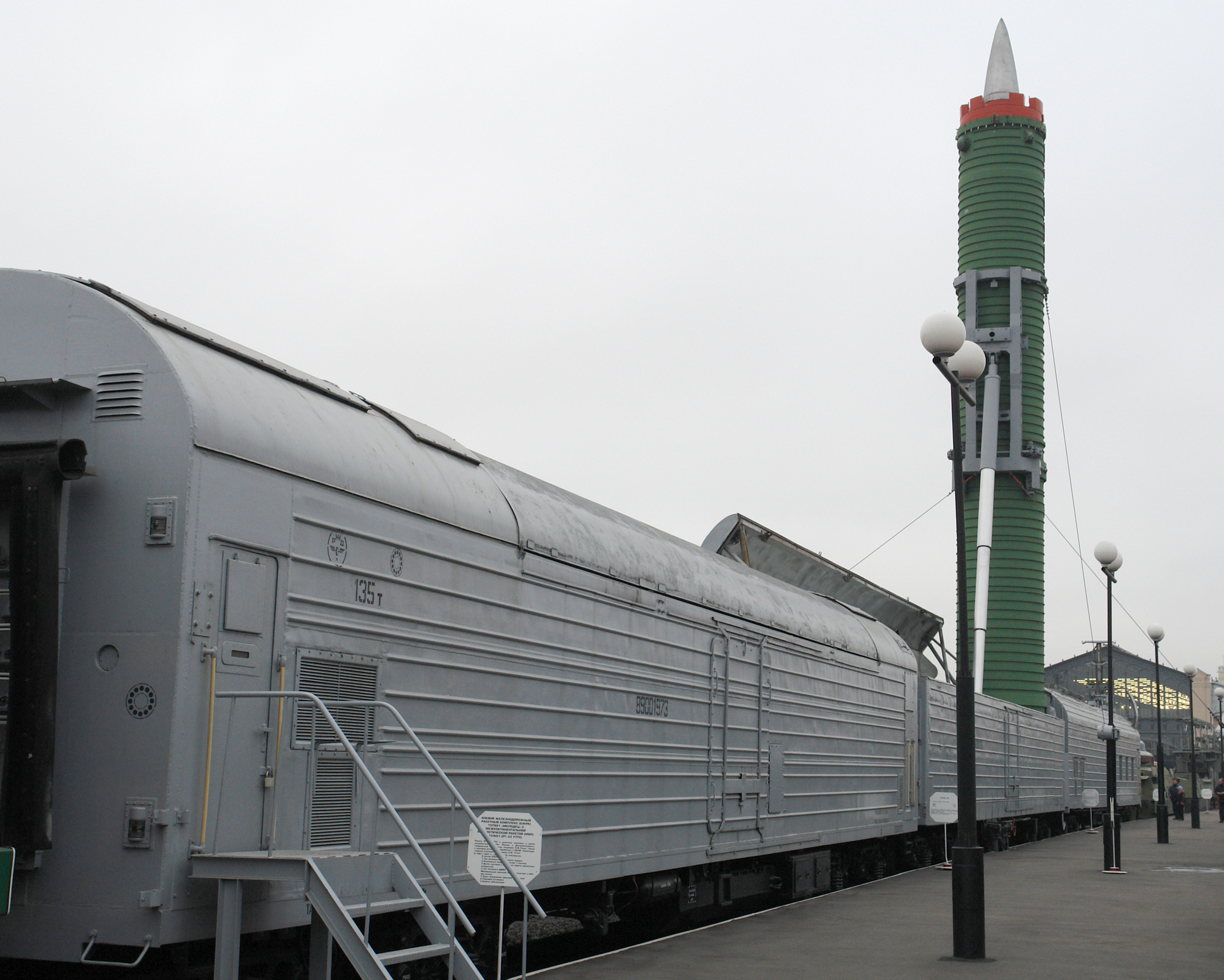 Military railway missile complex 15P961 "Molodets" with intercontinental missile 15ZH61 (RT-23 UTTH, SS-24 SCALPEL) Launching car Built by the Kalinin works in 1986 Length23,6 mWidth3,2 mHeight5,0 mWeight200 t The design is based on the 8-axles freight car (loac 135 t). The roof is opened by the hydraulic gear. Thi missile carries ten nuclear warheads each with a yielc of 0.A3 Mt. Warheads are equipped with an arrangemeni for overcoming of antiballistic missile system Power supply car Built by the Kalinin works in 1986 Length23,6 mWidth3,2mHeight5,0 m Contains four diesel generators each with a power of 100 kW for independent operation of launching unit. Provided with an arrangement able to short-circuit and push aside the overhead contact wire. Длина23,6 мШирина3,2 мВысота5,0м Оборудован четырьмя дизель-генераторами мощностью 100 кВт для обеспечения автономной работы пускового модуля а так же устройством для закорачивания и отвода контактной сети (ЗОКС).Date28 October 2007SourceOwn workAuthorGeorge ShuklinPermission (Reusing this file) Own work, share alike, attribution required (Creative Commons CC-BY-SA-2.5)